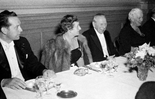 Photograph of a dinner party in honour of the Finnish-Swedish composer Armas Järnefelt (1869–1958). From the left, Veikko Loppi (1907–2005), Mrs. Sylvi Rydman (1903–?), Armas Järnefelt, and Mrs. Eva Paloheimo (1893–1978).